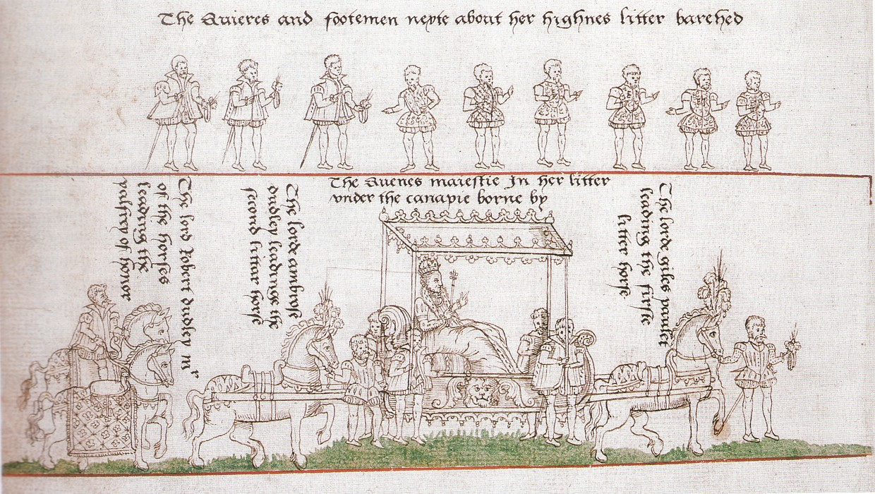 Drawing of the Coronation Procession of Elizabeth I of England, 1559, from a document in the College of Arms